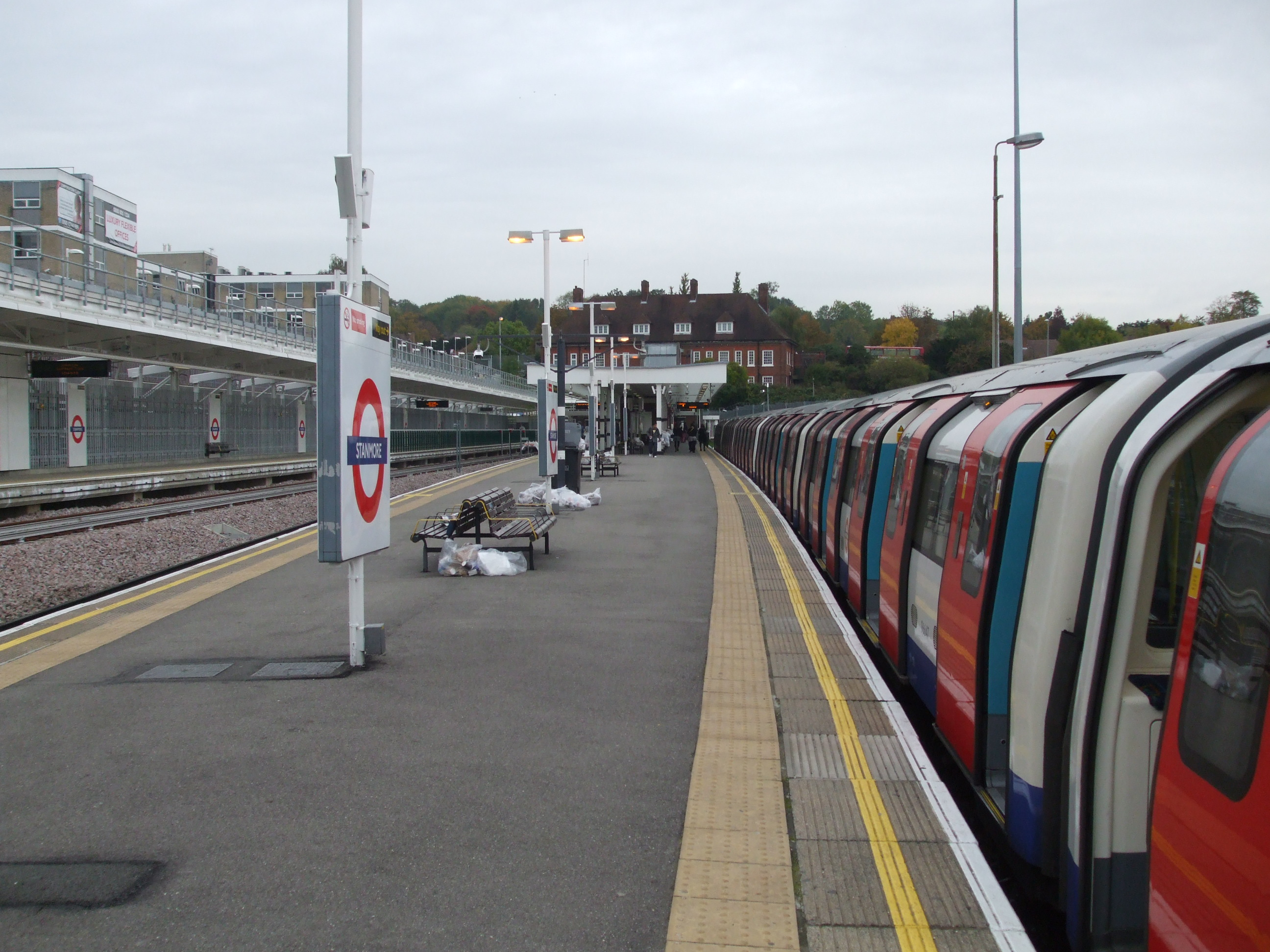 Stanmore tube station island platform 1 looking north to buffers.